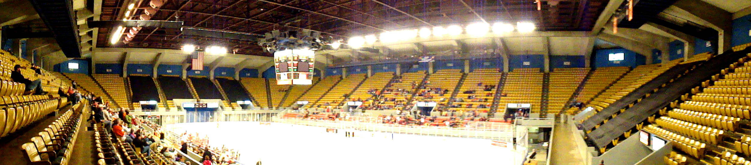 Interior of the Roanoke Civic Center arena with its hockey configuration in place for a Virginia Tech Hokies ice hockey game in Roanoke, Virginia, USA.